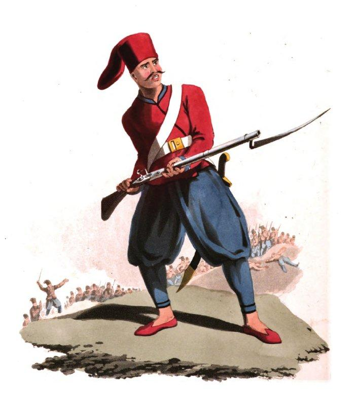 'This subject represents a private soldier of the corps described in the foregoing page: he is in the act of charging with the bayonet: in the back-ground a field of battle is represented. The individuals which compose the different corps of the Turkish armies. are in general possessed of the essential requisites of a soldier, hardihood and courage; and if the government was to adopt more of the modem military improvements and tactics of the other European nations, the Ottoman armies would soon become very formidable to their enemies.'